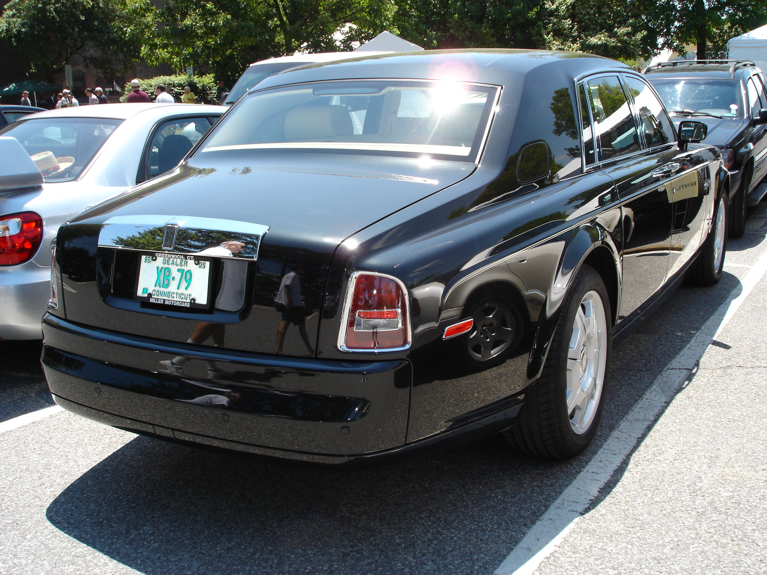 2005 Rolls-Royce Phantom Photographed by Jagvar at the Greenwich Concours d'Elegance in Greenwich, CT on June 4, 2005.